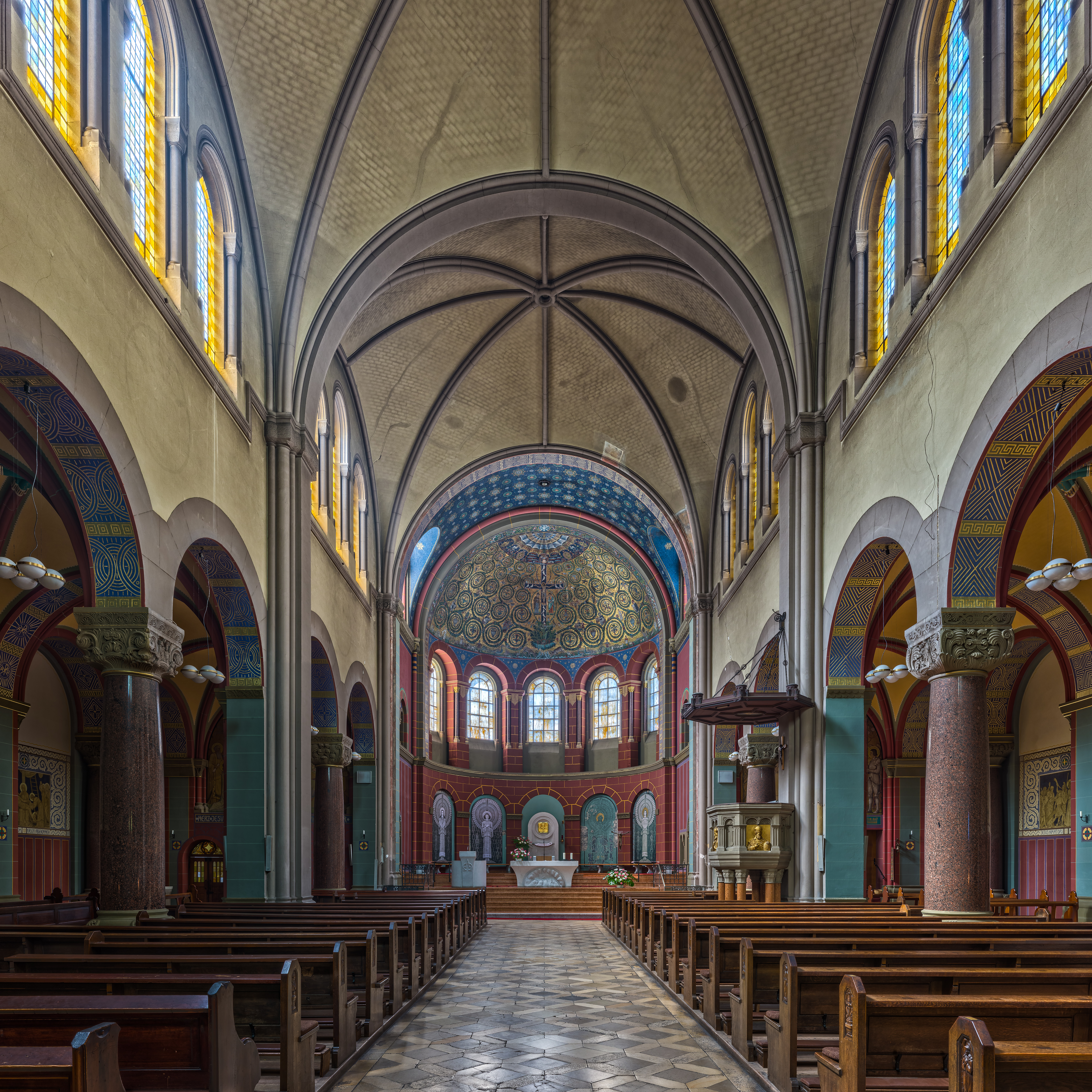 Interior of the Catholic Church of St. Joseph in Berlin-Wedding. View from the main entrance towards the choir.